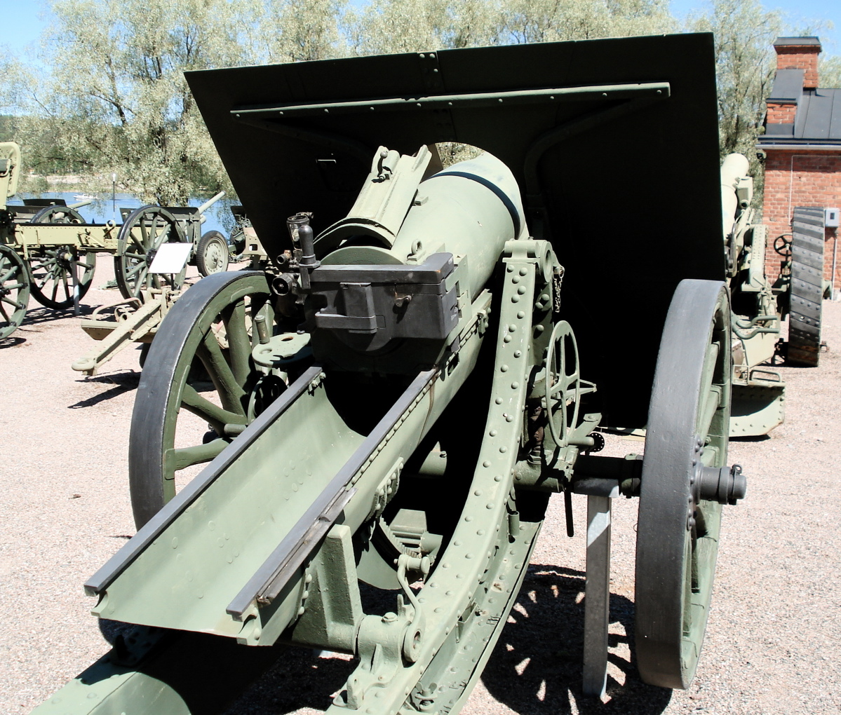 Russian/Soviet 152 mm howitzer Model 1909-30 Schneider (1526 dm krepostnaja gaubitsa sistemy Schneidera obr. 1909-1930) , displayed in Hämeenlinna Artillery Museum. Photo taken on June 18, 2006. Source: Photo by me, User:Balcer.